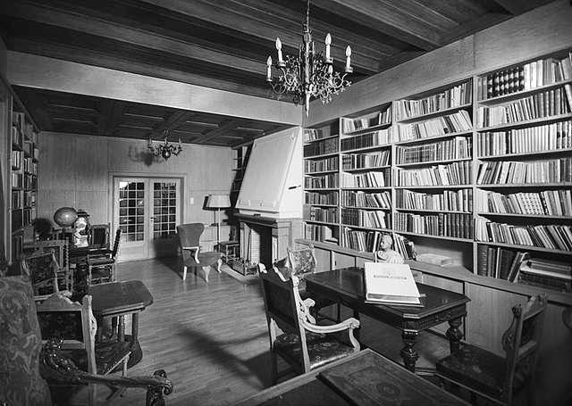 Quisling's library in his mansion Villa Grande in Oslo.